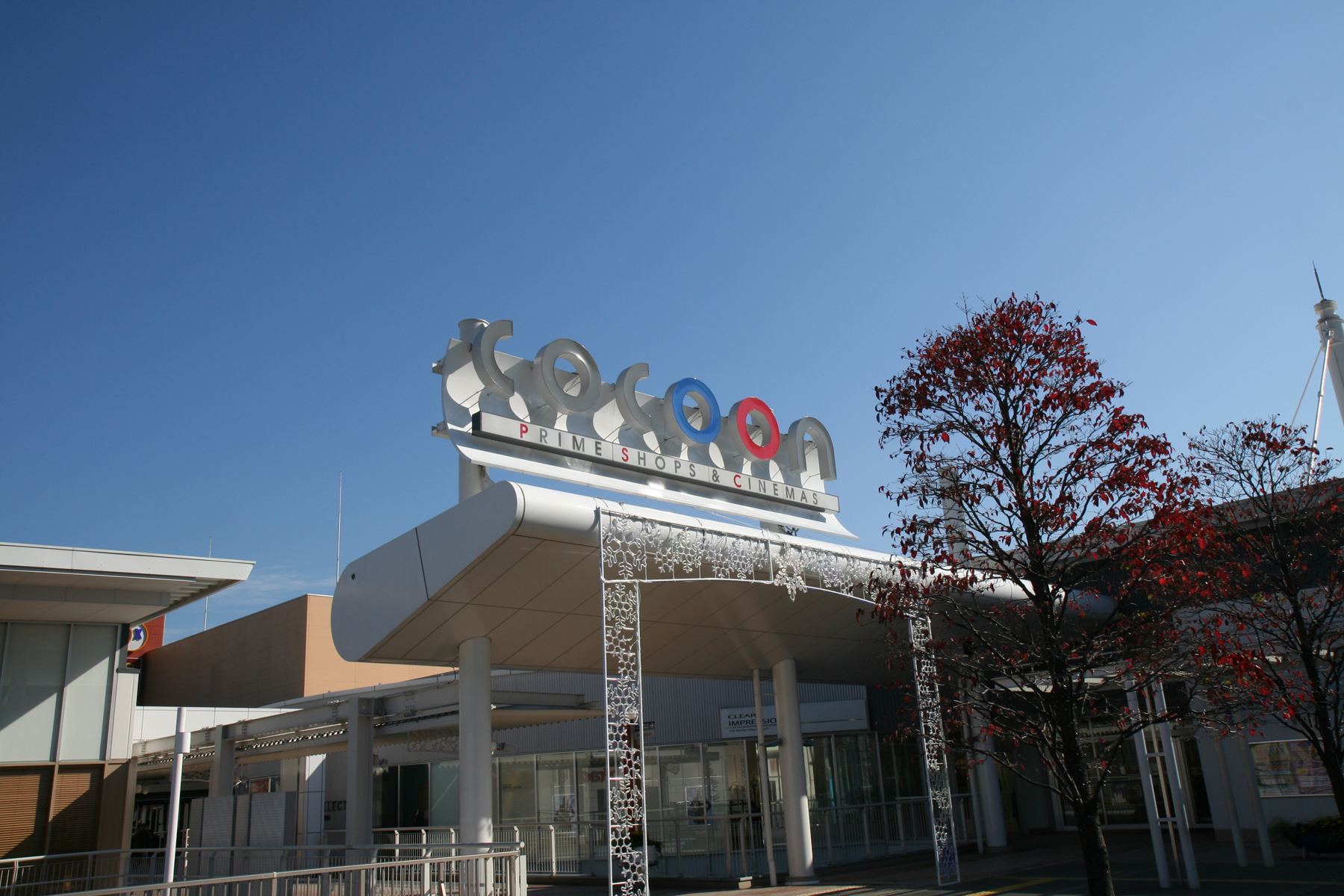 Japanese COCOON Shintoshin in Saitama prefecture.